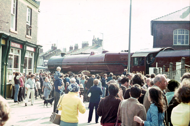 Shildon Level Crossing. Taken during the Steam 150 festival